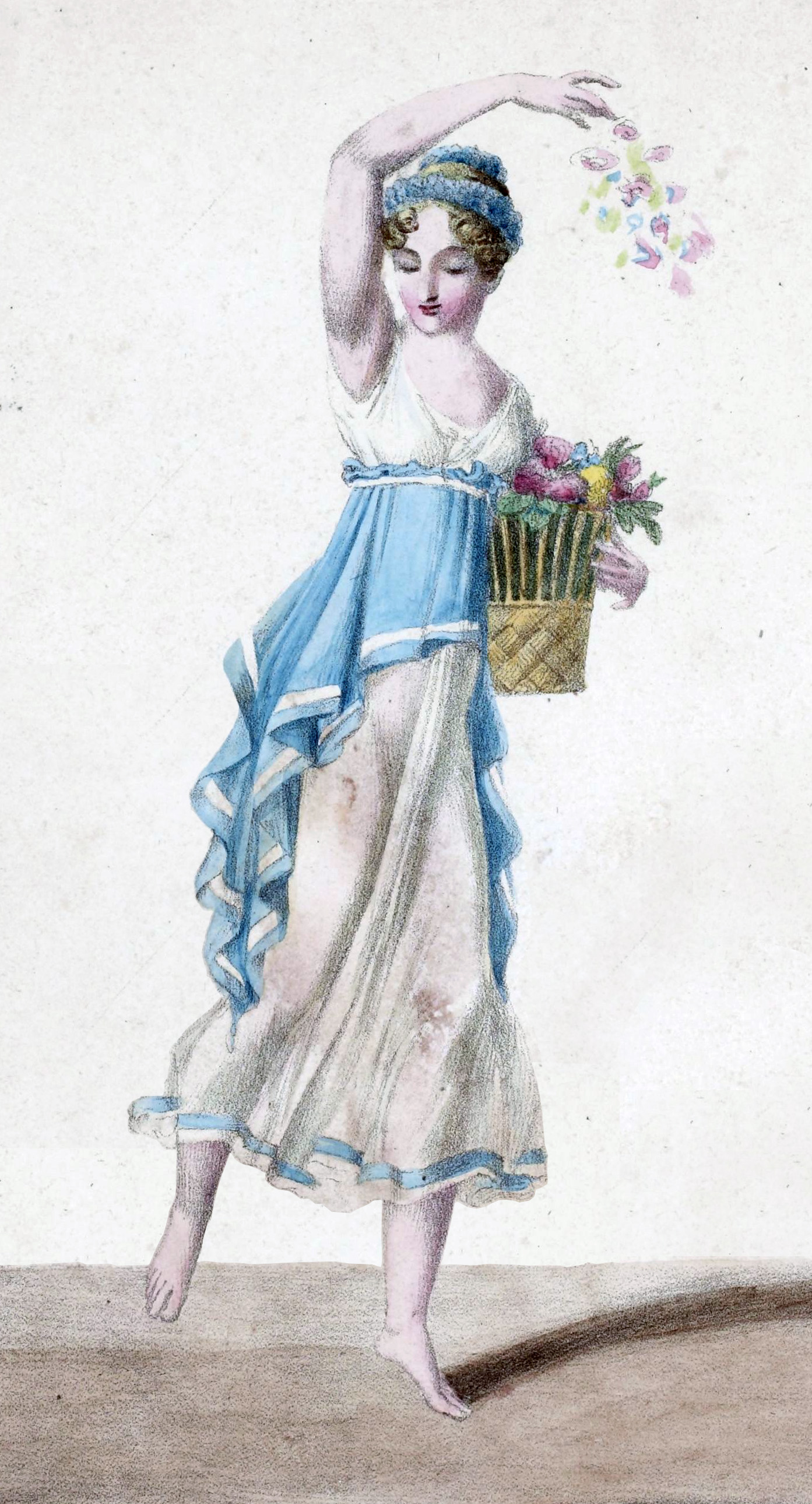 A young Éphésienne scatters flowers in Act III of Spontini's opera Olimpie, as first performed in 1819 at the Salle Montansier by the Académie Royale de Musique (Paris Opera)